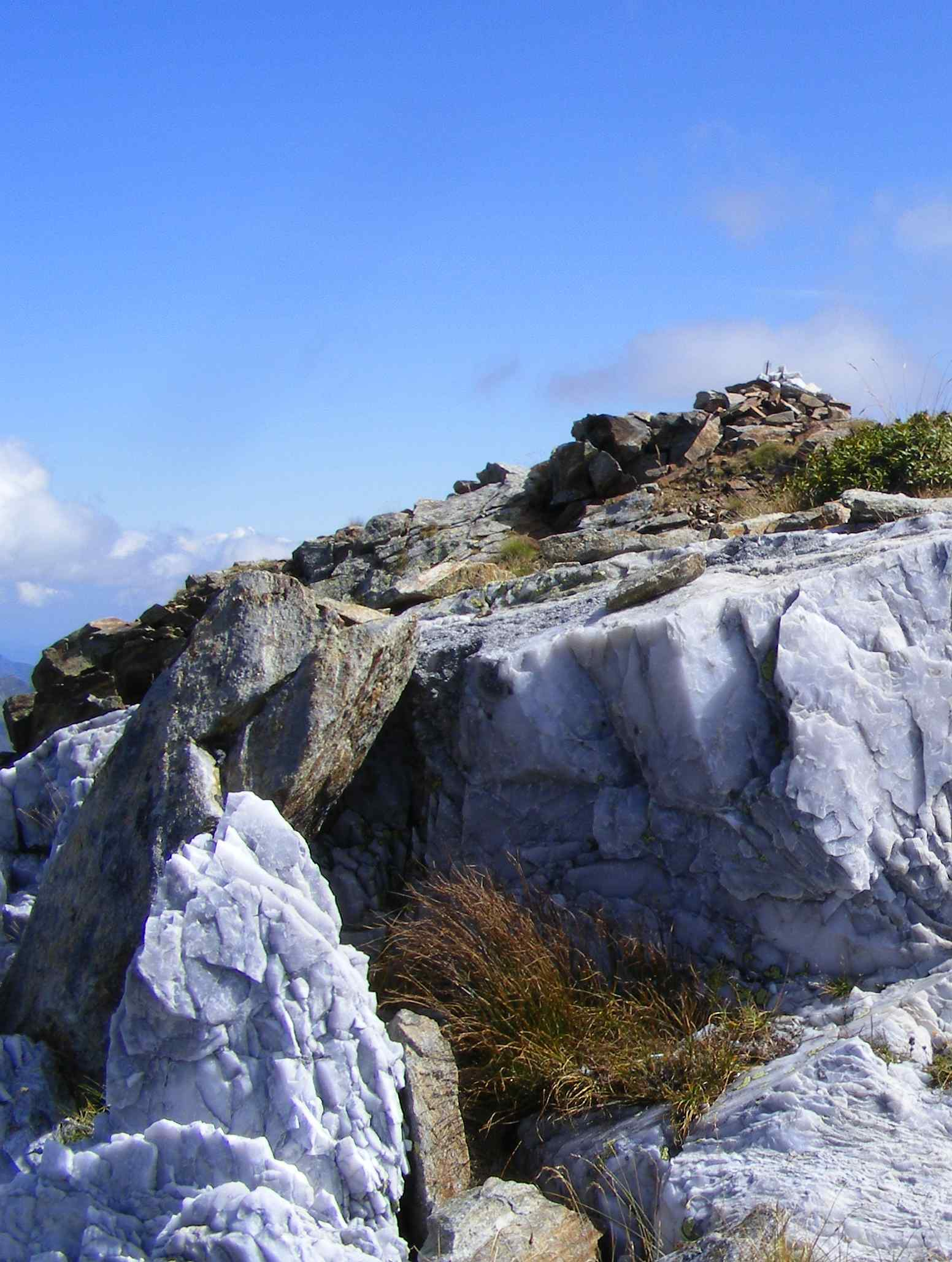 Monte Pietra Bianca (Alpi Biellesi, Italy)